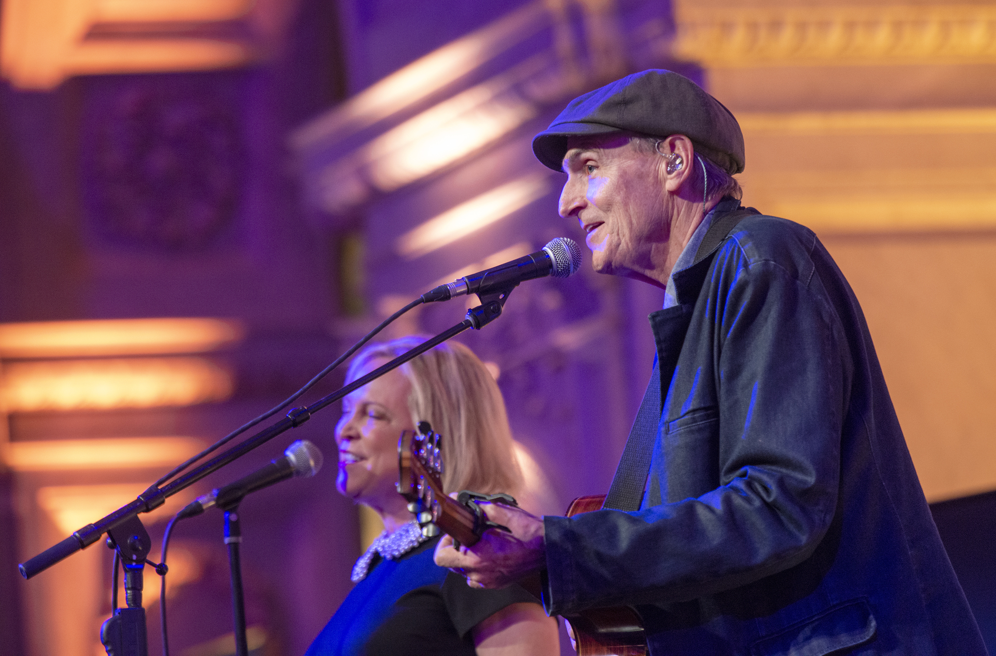 Legendary singer-songwriter James Taylor, his wife Kim Taylor, and cellist Owen Young perform a musical tribute to U.S. Supreme Court Justice Ruth Bader Ginsburg during a ceremony at the Library of Congress in Washington, D.C. on Jan. 30, 2020.